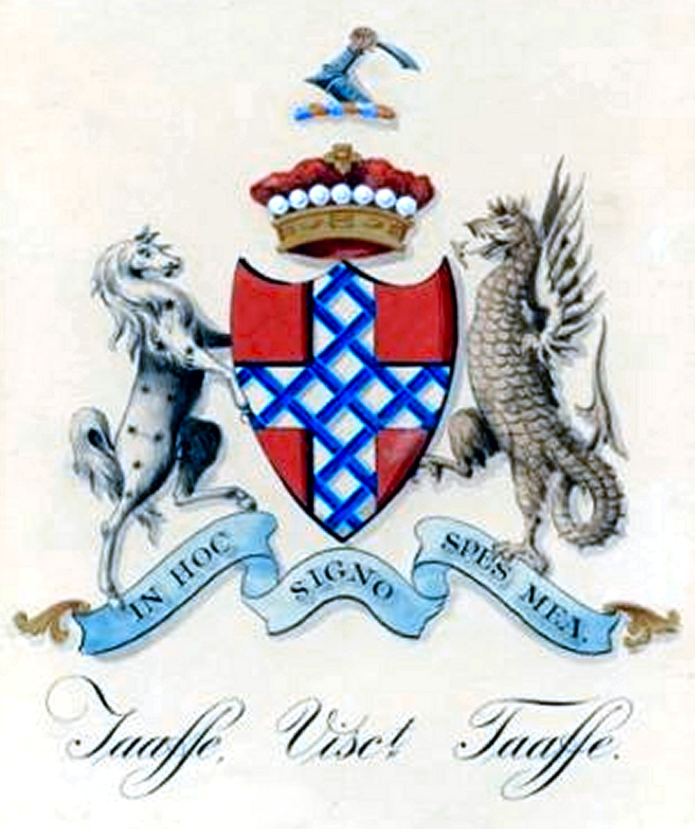 the taffe familys crest